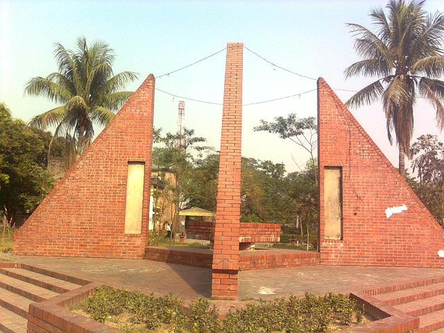 Dinajpur